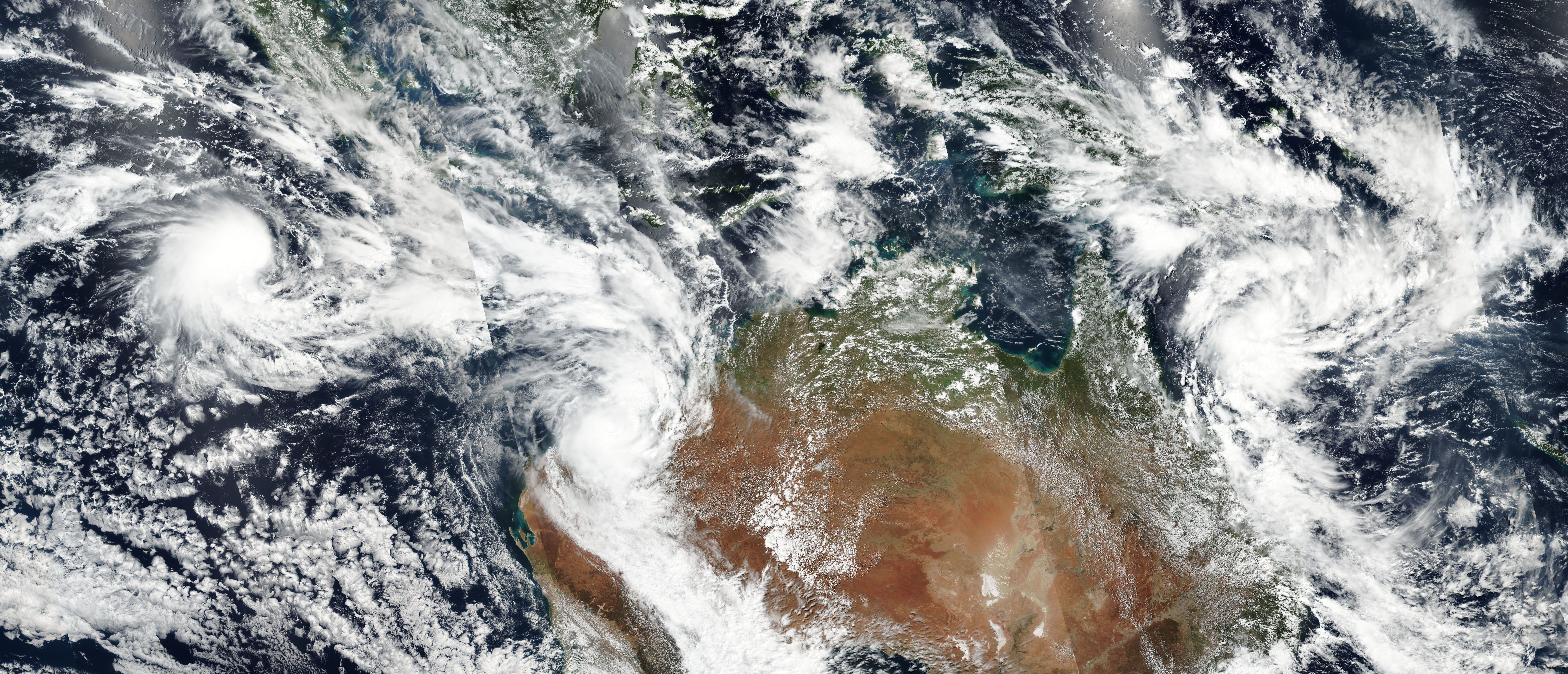 Three simultaneously active systems from the South Pacific Ocean: Caleb (east), 22U (middle-west) and 23U (becoming Debbie) to the east.